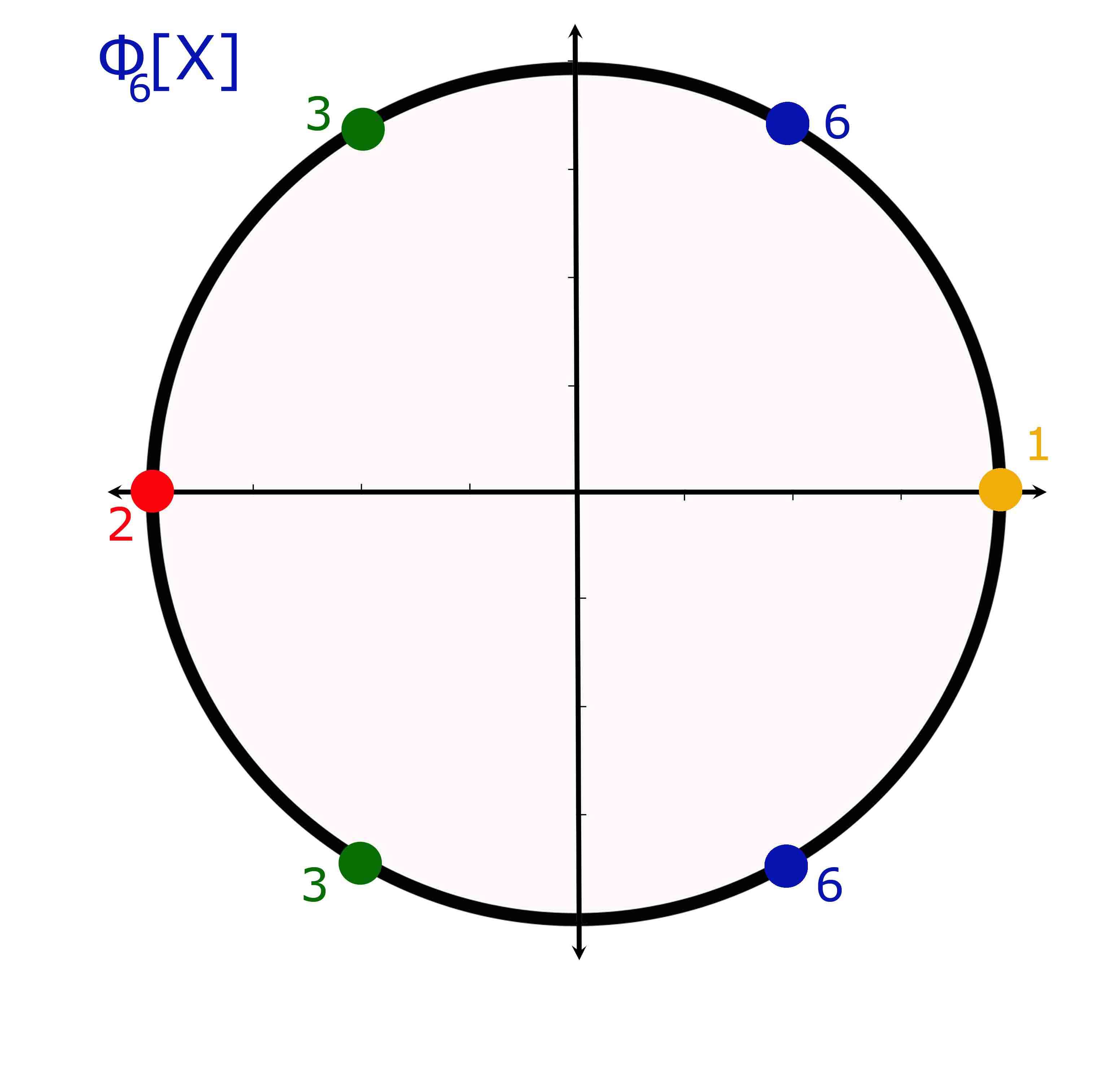 Schema to illustrate the cyclotomic polynom of index 6 (Wikipedia France)